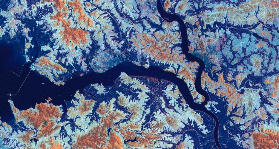 Korea Bay from NASA's Landsat